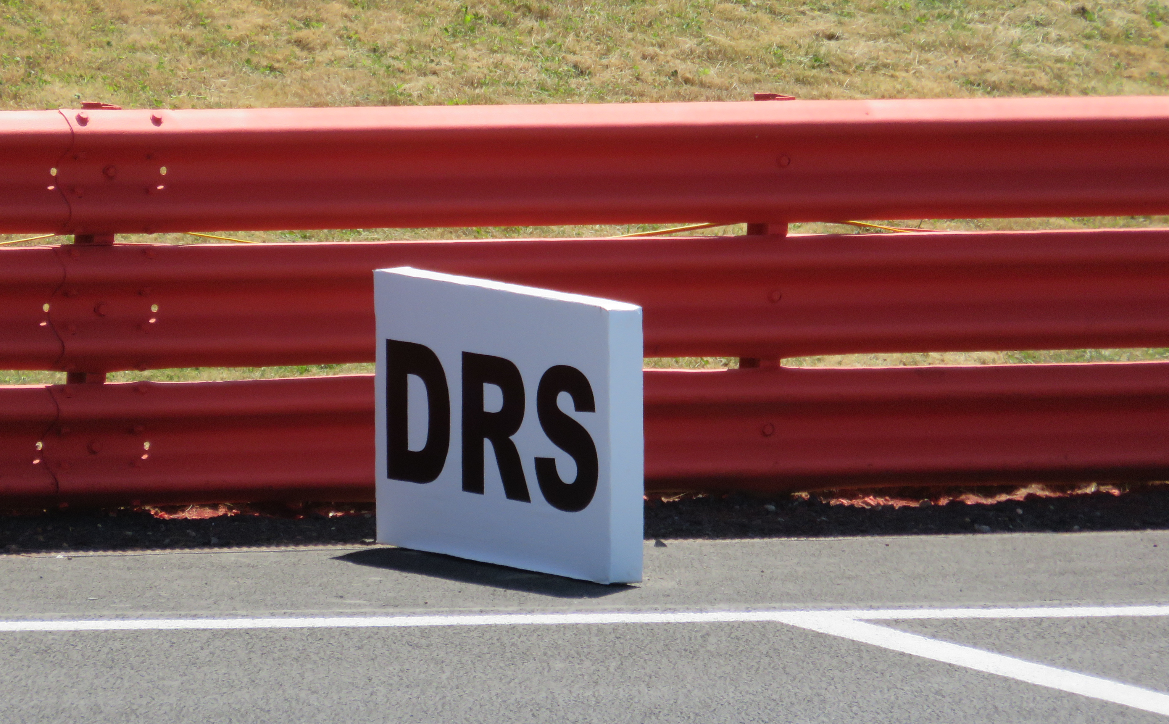 2018 British Grand Prix.